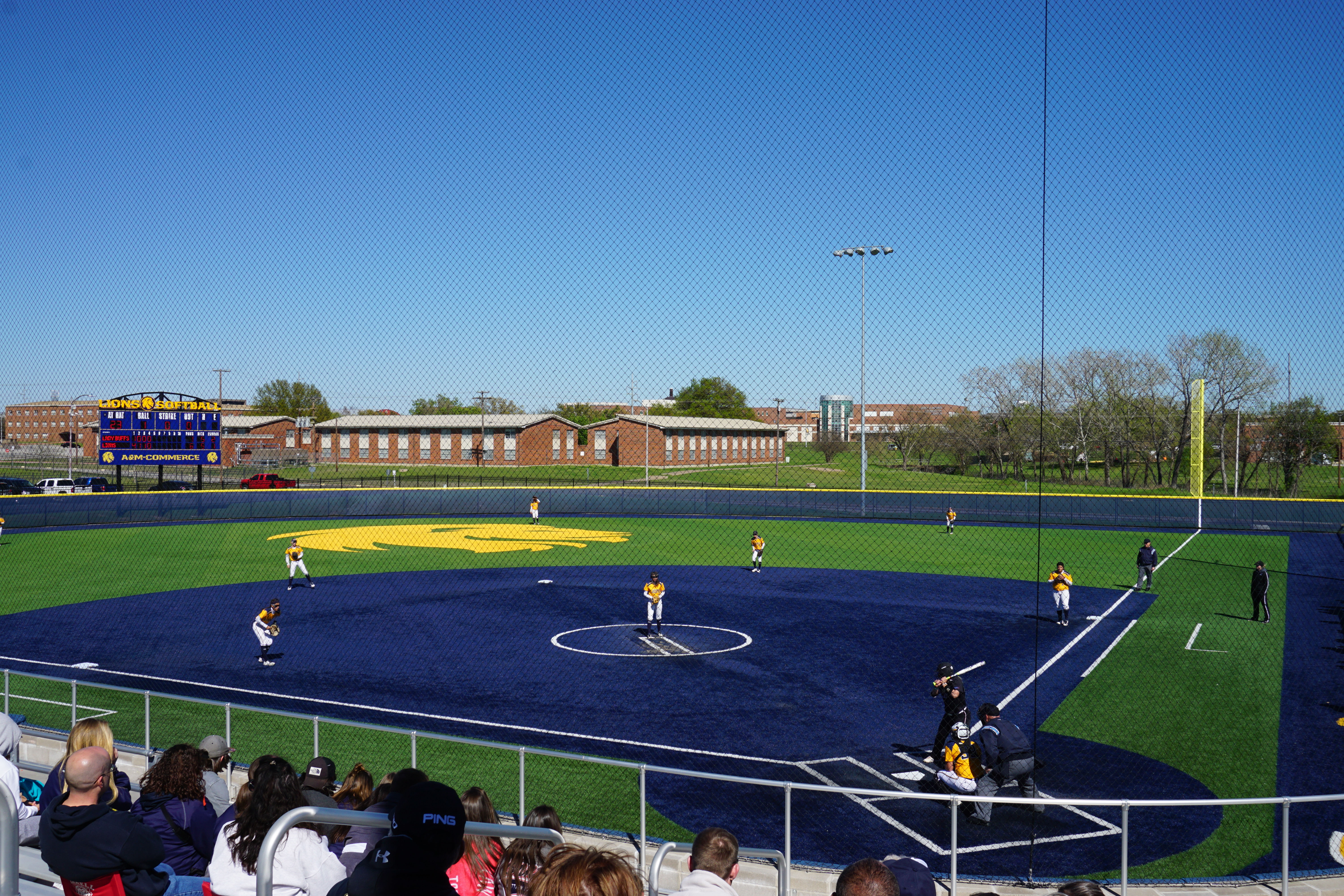 In-game action during the first game of the West Texas A&M Lady Buffs vs. Texas A&M–Commerce Lions softball doubleheader at the John Cain Family Softball Field in Commerce, Texas (United States). A&M–Commerce won the first game 6–4 and West Texas A&M won the second game 5–2.